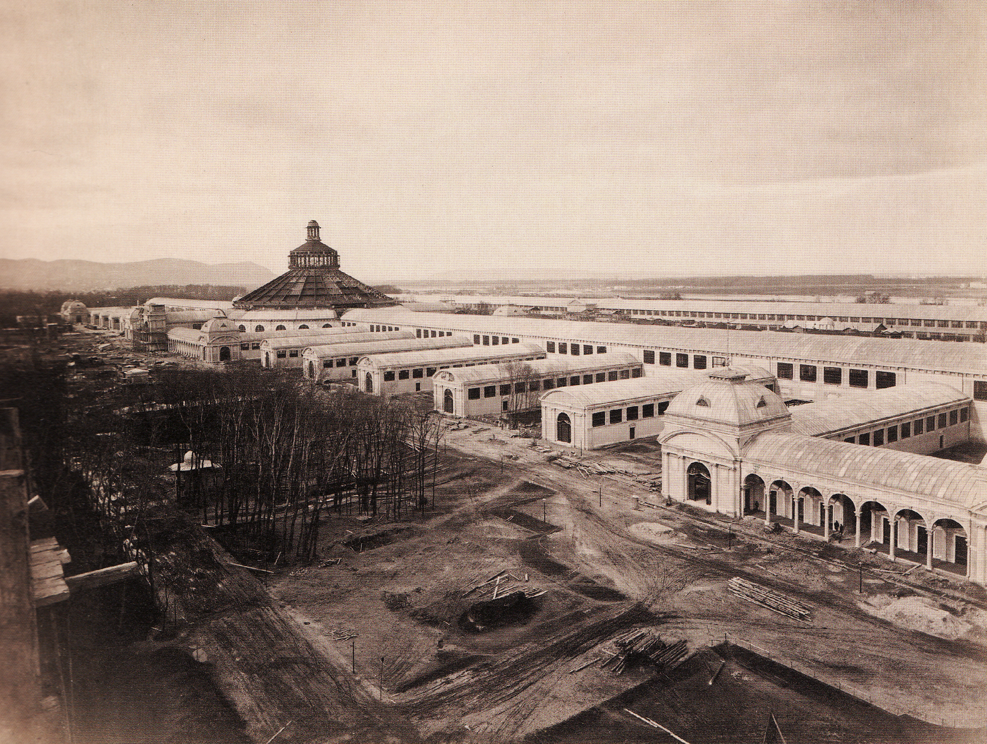 Area of the Expo 1873 under construction